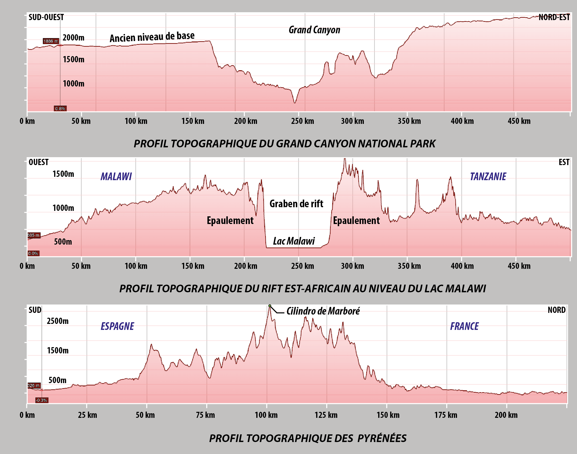 Topographic profiles through the Grand Canyon National Park (uplifted peneplain), Malawi Lake (rift basin) and Pyrenees (collision orogeny)